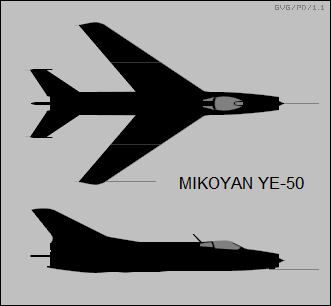 Ye-50